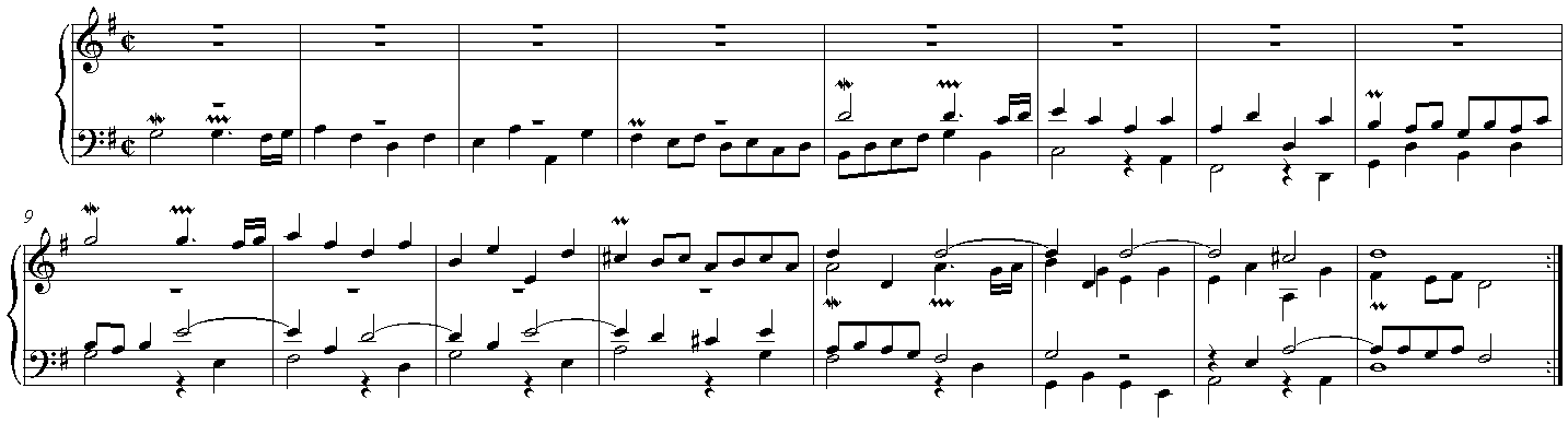 Musical quotation from Goldberg Variations (Variation 10) by Johann Sebastian Bach (1685–1750). Made using Sibelius 4 by Jashiin. The music quoted is in the public domain, and the image is hereby released into the public domain by Jashiin.